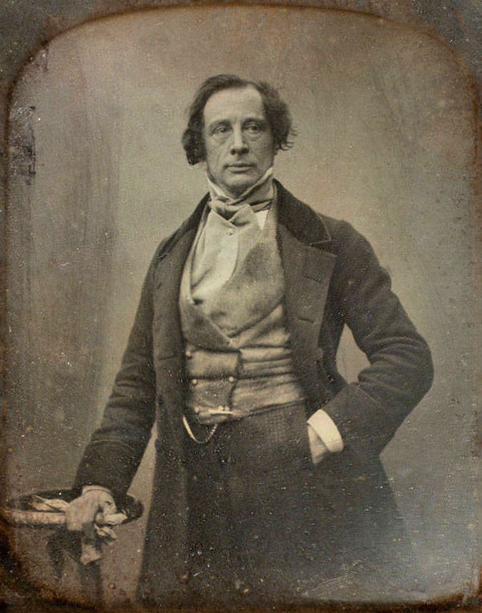 Daguerreotype portrait of Charles Dickens